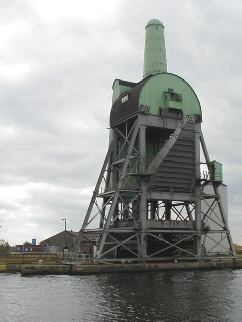 Coal hoist, Goole, East Riding of Yorkshire, England.This hydraulically-operated hoist was used to bodily lift and tip coal containers in the days of the floating 'Tom Pudding' coal tubs.